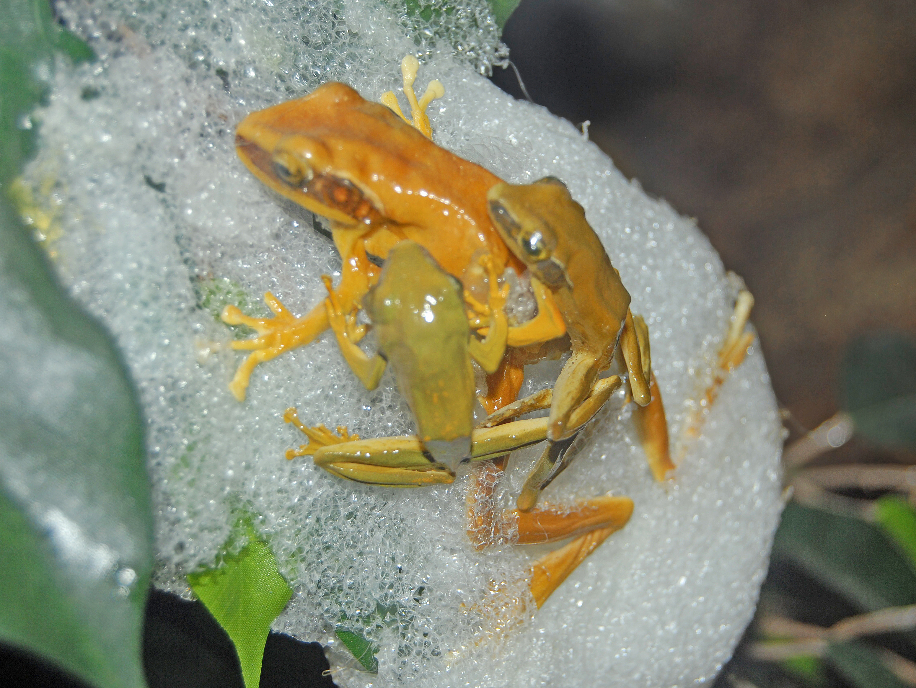 Polypedates leucomystax, on display at the Museo Civico di Storia Naturale di Milano